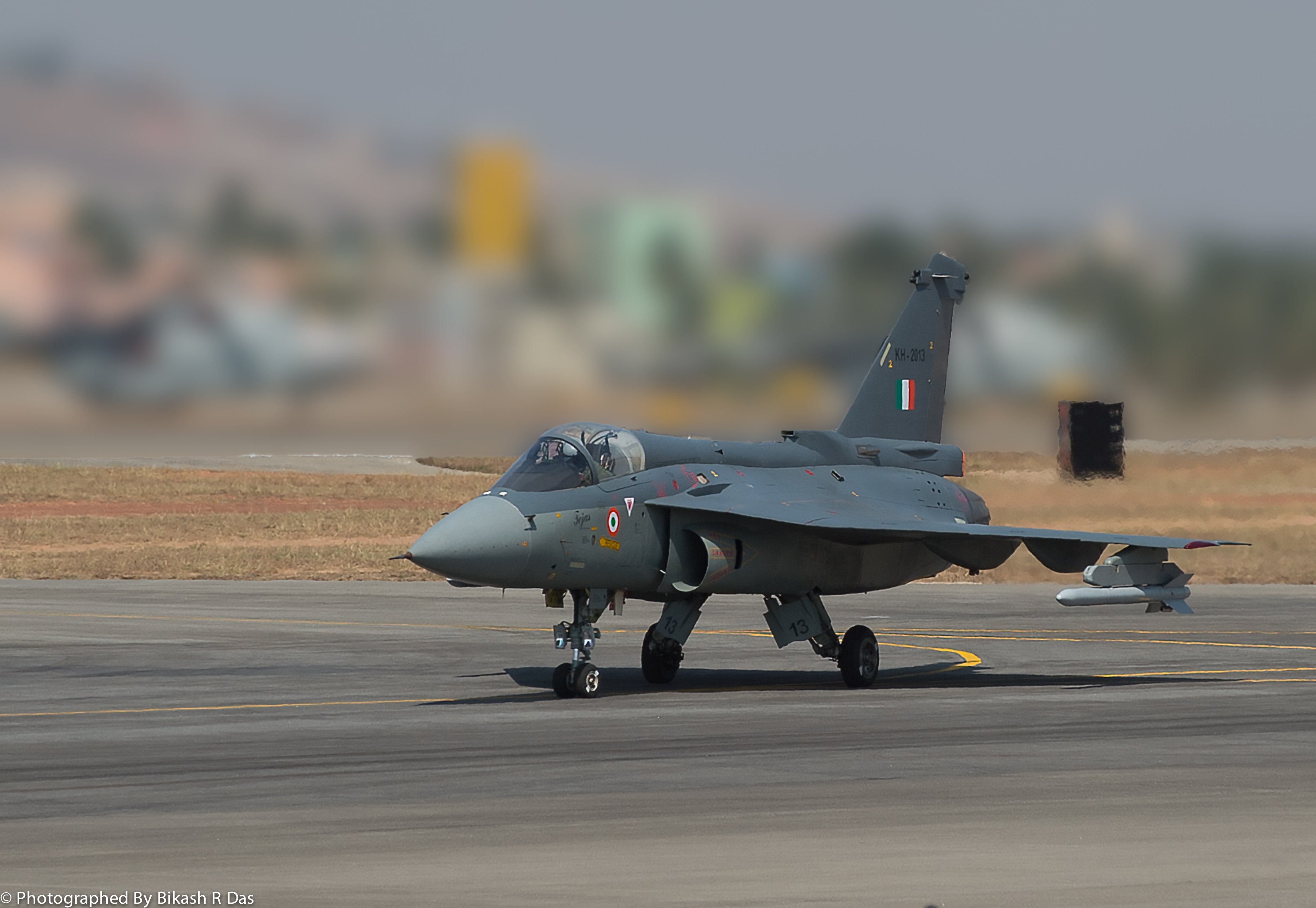 LCA- Fighter Plane Inducted into the Indian Air Force